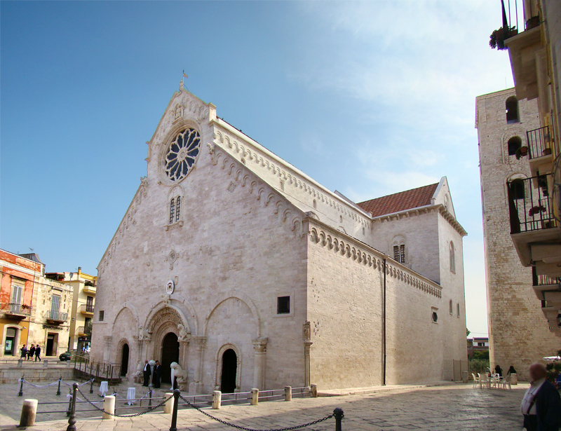 Cocathedral of Santa Maria Assunta, Ruvo di Puglia, Apulia, Italy.